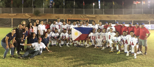 The Philippine national lacrosse team in Israel for the 2018 World Lacrosse Championship after their win over Czech Republic. They are joined by officials of the Philippine Embassy in Tel Aviv.